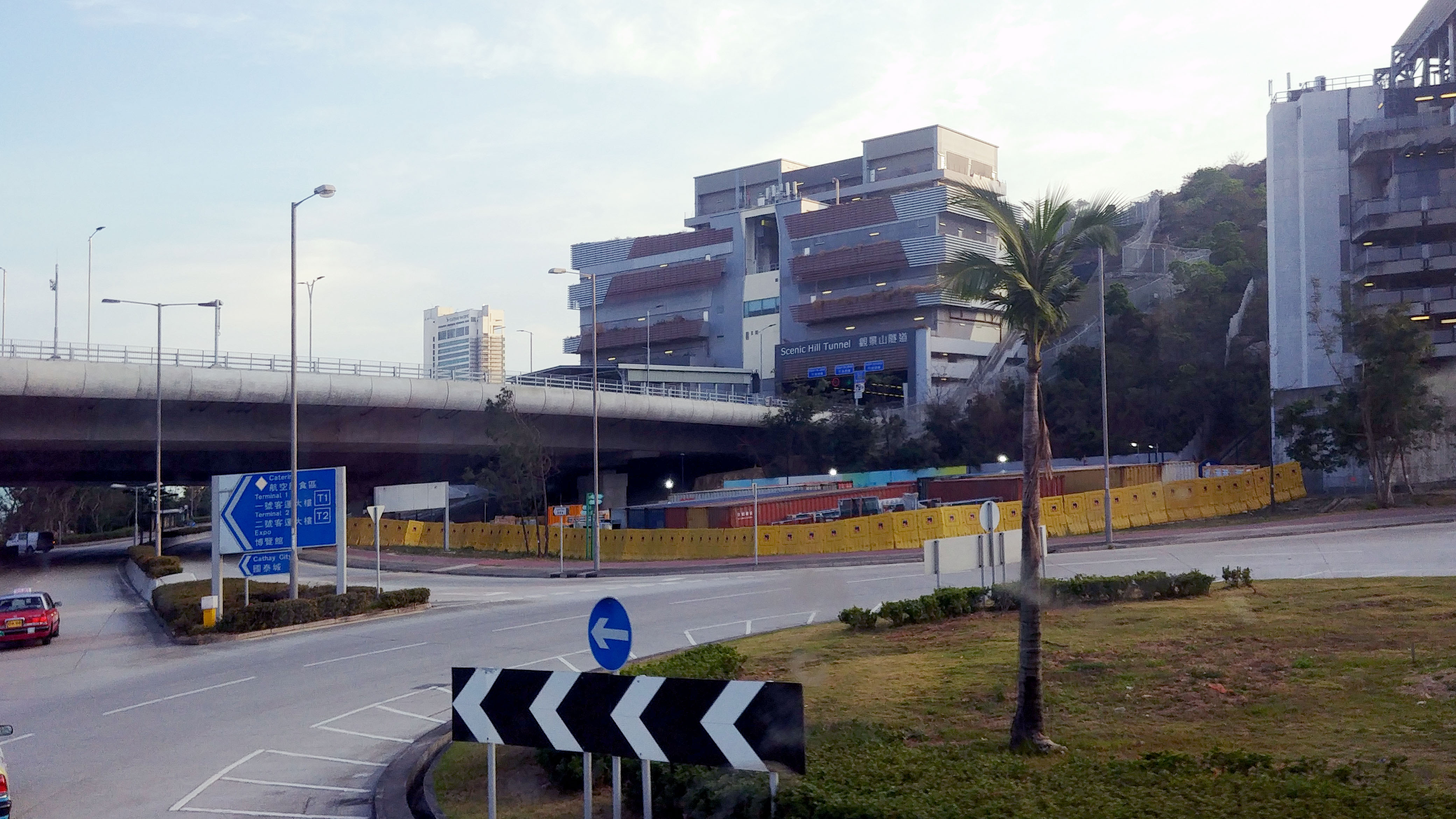 West Entrance of the Scenic Hill Tunnel of HZMB Hong Kong Link Road, shot on a double-decker bus at Scenic Drive Roundabout, HKIA